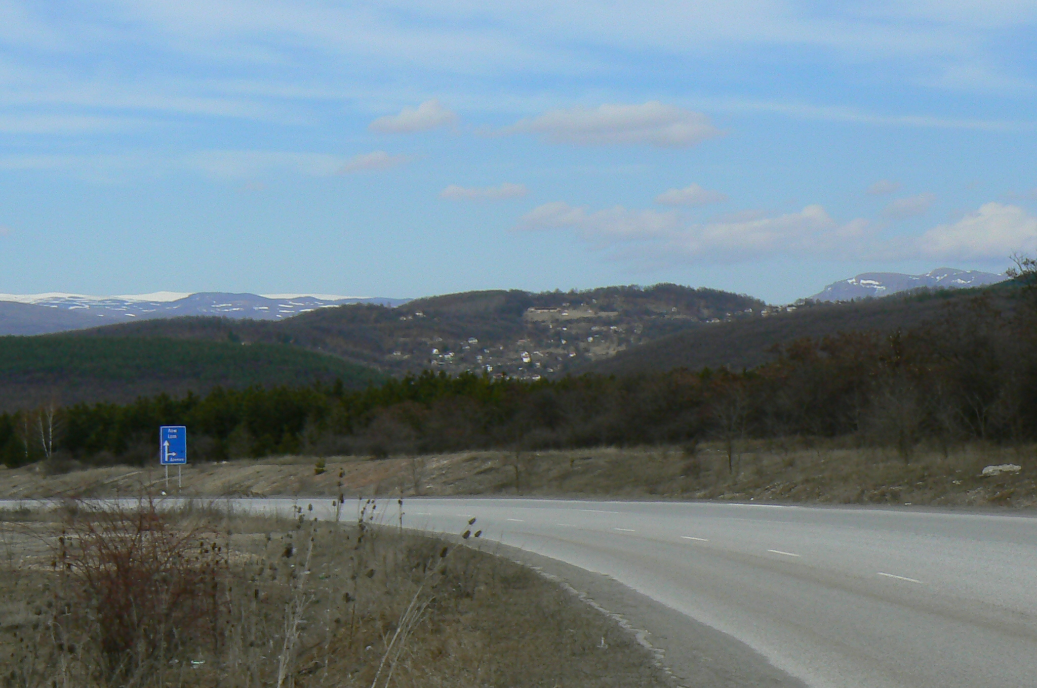 Overview of village Dramsha, Bulgaria